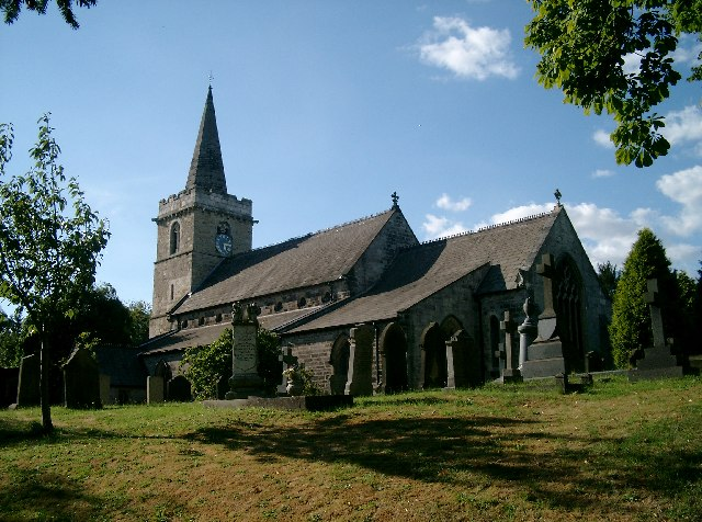 St Ricarius, Aberford. The parish church of Aberford. The only church in the country named after St Ricarius.